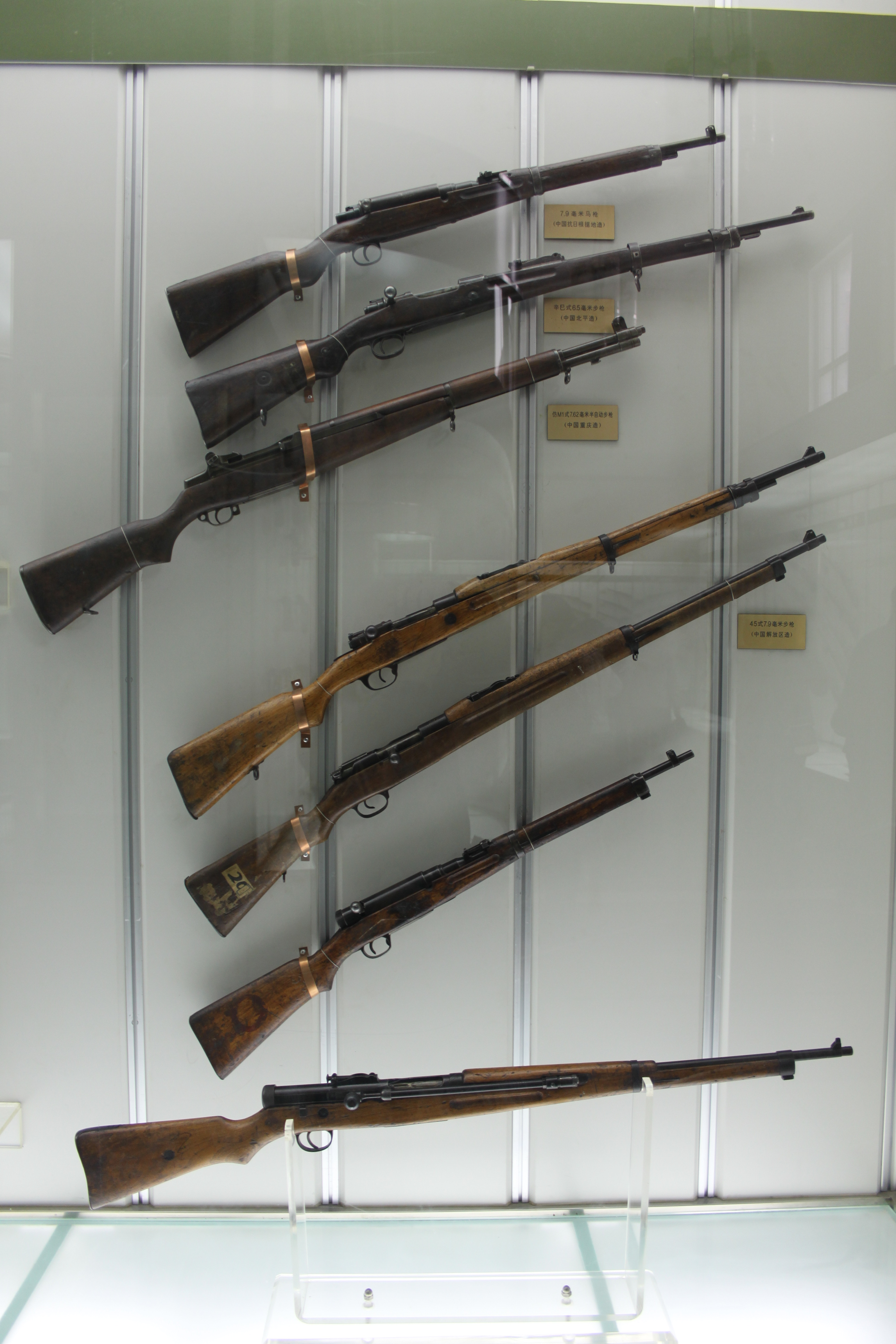 Military Museum: Modern Weapons, Small Arms Gallery. Complete indexed photo collection at .